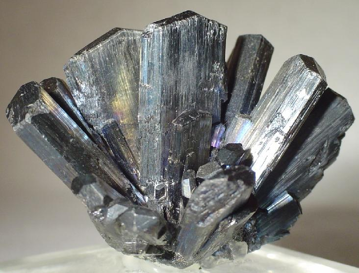 Stibnite Locality: Baiut, Maramures County, Romania (Locality at ) An aesthetic spray of sharp, striated and flattened iridescent metallic stibnite blades. They throw off amazing flashes of blue and purple colors as the piece is turned in the light . Old classic material, not to be compared on the same keel to the far-more-common Chinese stuff! 4.7 x 3.3 x 3.1 cm